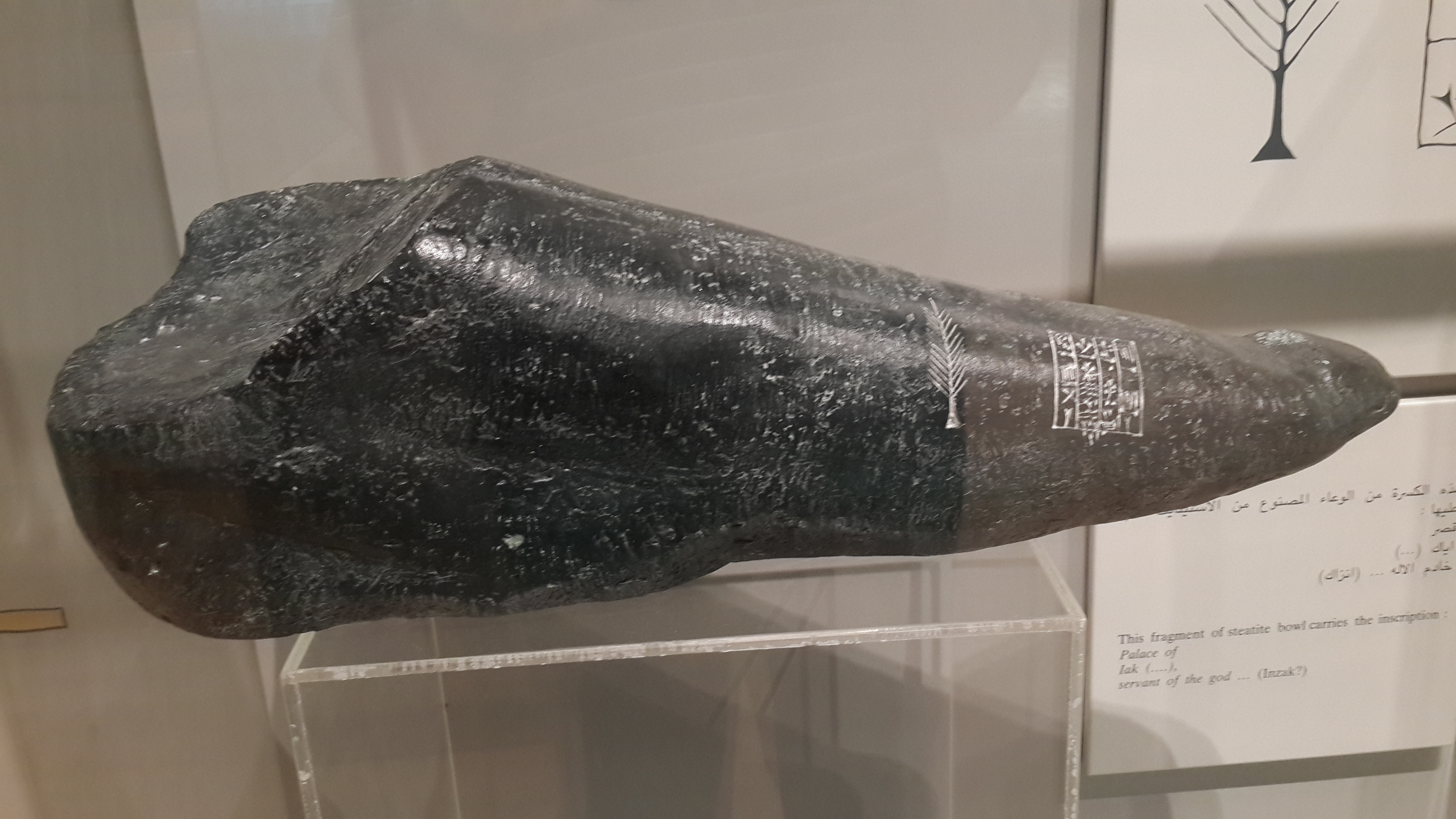 This is a photograph of a replica of the Durand Stone at the Bahrain National Museum. The stone dates back to the Kassite period (1591 BC - 1155 BC) and likely originates from Oman or southeastern Iran. The original Durant Stone was said to be destroyed during World War II.